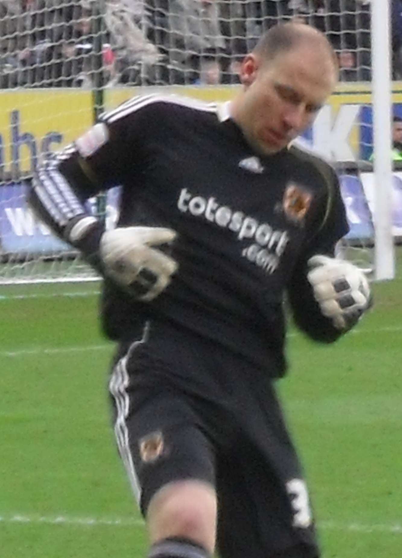 Brad Guzan